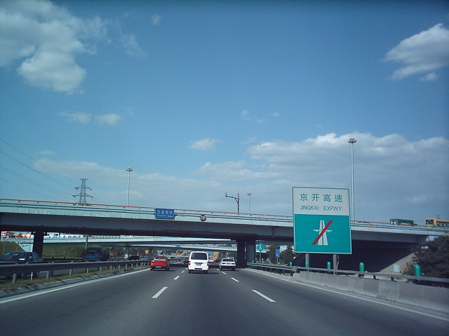 Yuquanying